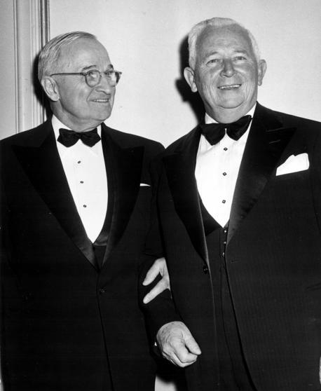 Matthew H. McCloskey (US Ambassador to Ireland) with former president Harry S. Truman